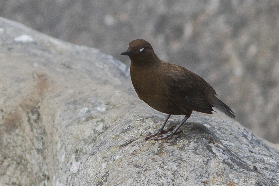 The specie Brown Dipper had been photographed at Padampuri, Uttarakhand, India on 01.02.2015. during the birding tour of GoingWild.